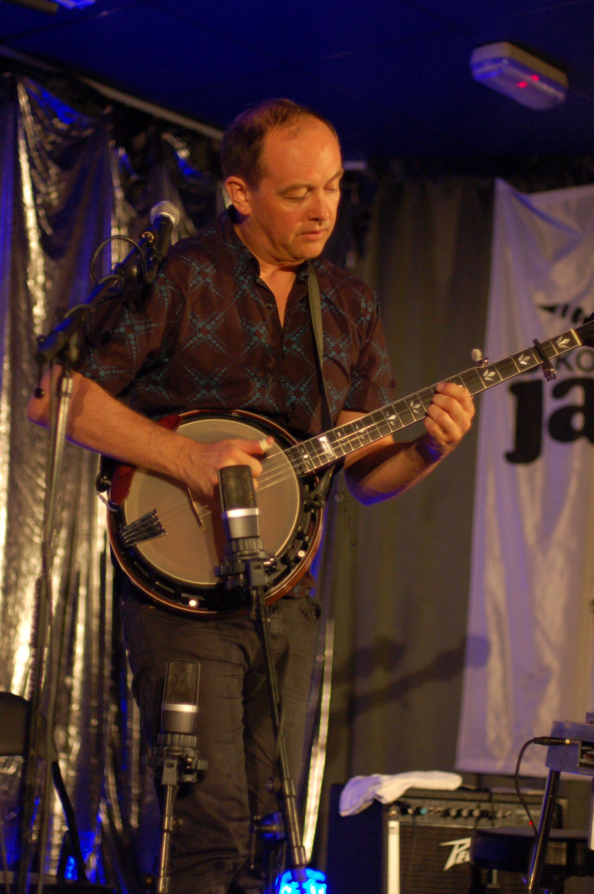 Stian Carstensen at Kongsberg Jazzfestival 2011. Photo: Thomas BjørndahlNorsk bokmål: Stian Carstensen på Kongsberg Jazzfestival 2011. Foto: Thomas Bjørndahl